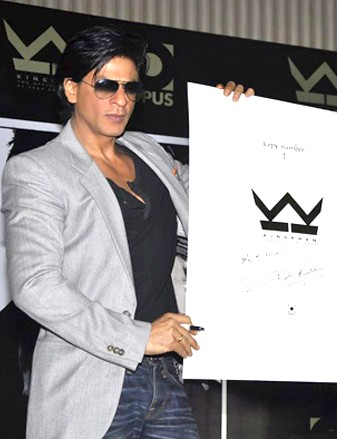 Bilal loves AROOJ AND TOGETHER FOREVER KISSES LOVE LOVE